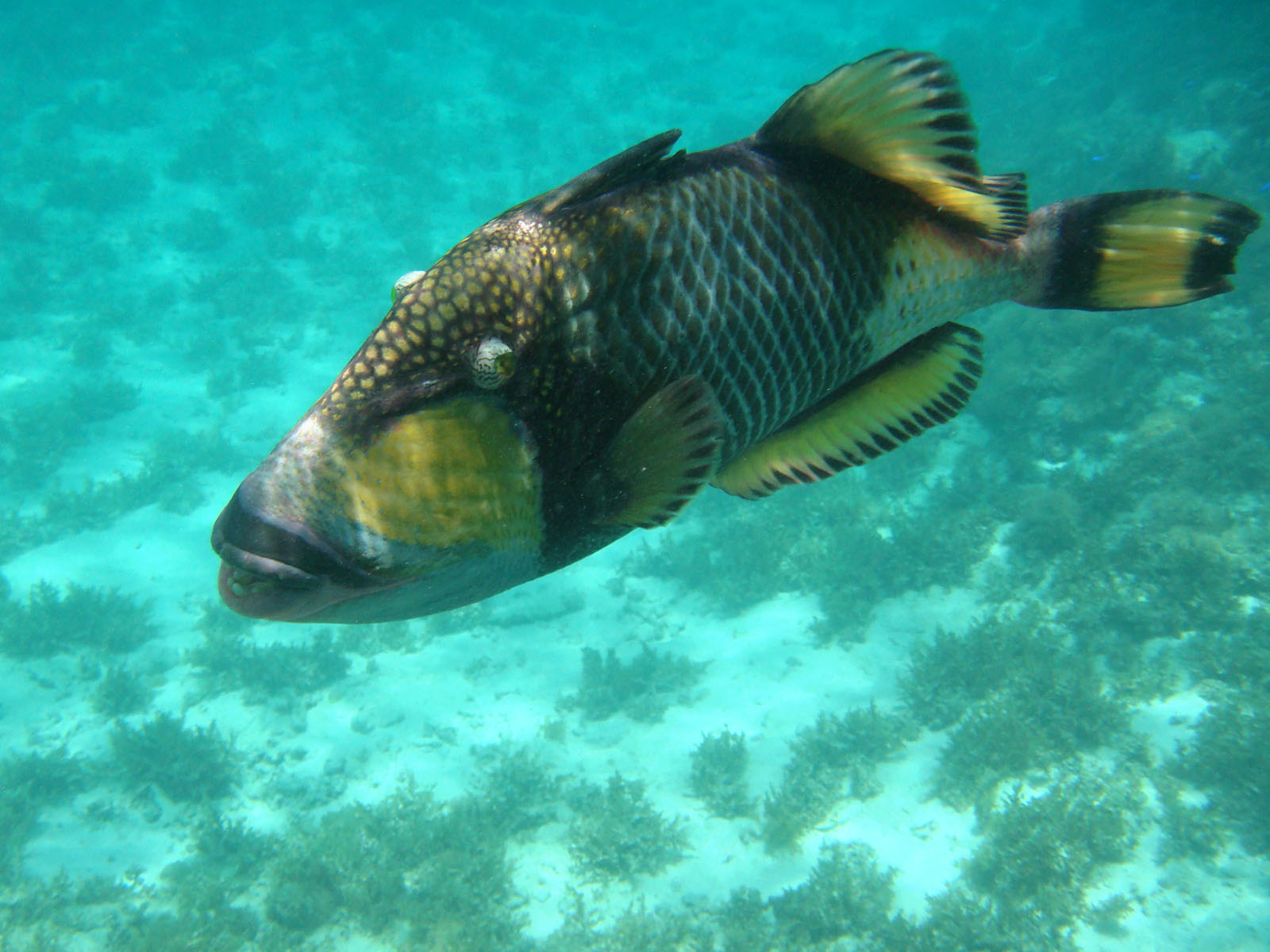 Titan triggerfish (Balistoides viridescens)